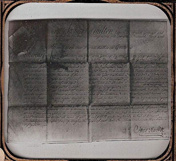 Passport of Henry Melchior Muhlenberg, issued by James Hamilton (Pennsylvania), 1752